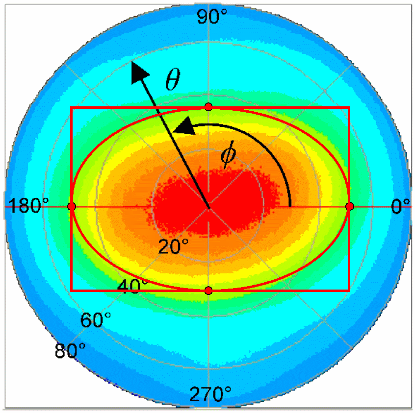 The viewing cone is a range of viewing directions for which certain visual properties of a display (e.g. luminance, contrast, chromaticity, etc.) have to remain within certain limits. Different applications usually require different viewing cones: a desk-top monitor for office work has to perform well within a restricted viewing cone (see e.g. ISO 13406-2: Viewing Direction Range Classes) and a public address display for advertising has to feature an extended viewing cone. The marketing division may convert the limited viewing cone of certain LCD-screens into the feature of a "privacy screen" (it is not a bug, it's a feature). Each point in the polar coordinate system shown represents one distinct viewing direction specified by angle of inclination, Theta and azimuth, Phi. The value of the target quantity at this point (= direction) is given e.g. by lines of equal value (contour lines), by shades of grey or by pseudo-colors (as shown in the image above).